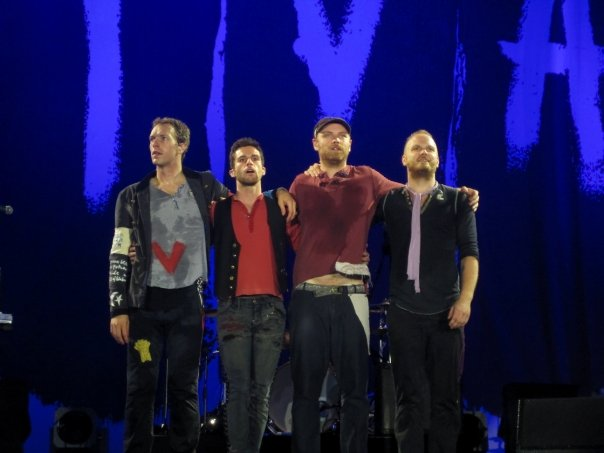 Coldplay was greeting their fans after singing their last song of their Viva La Vida Tour 2009 in Hannover.